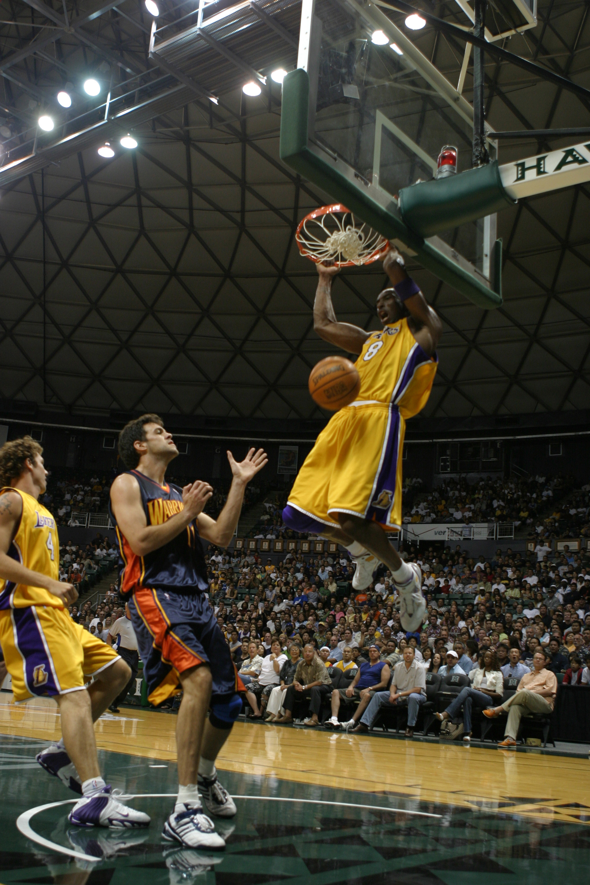 Bryant hangs from the rim after one of several slam dunks during the pre-season game, Tuesday night, at the University of Hawaii.